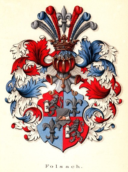 Coat of arms of the Folsach family